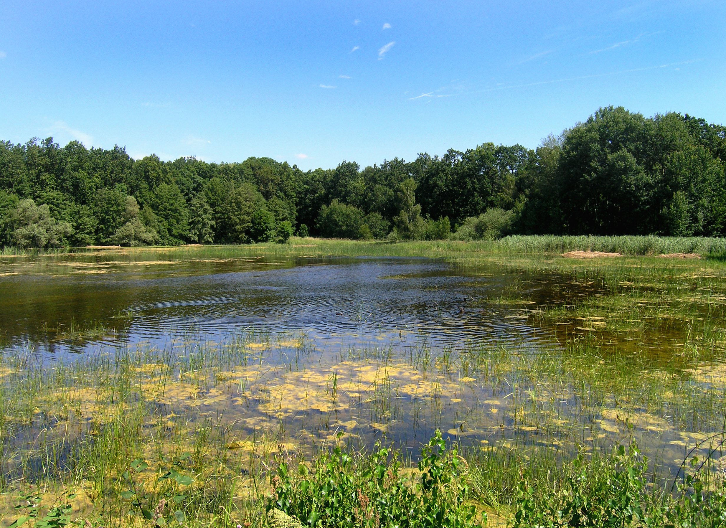 Horní Jílovky pond by Lázně Bohdaneč, Czech Republic